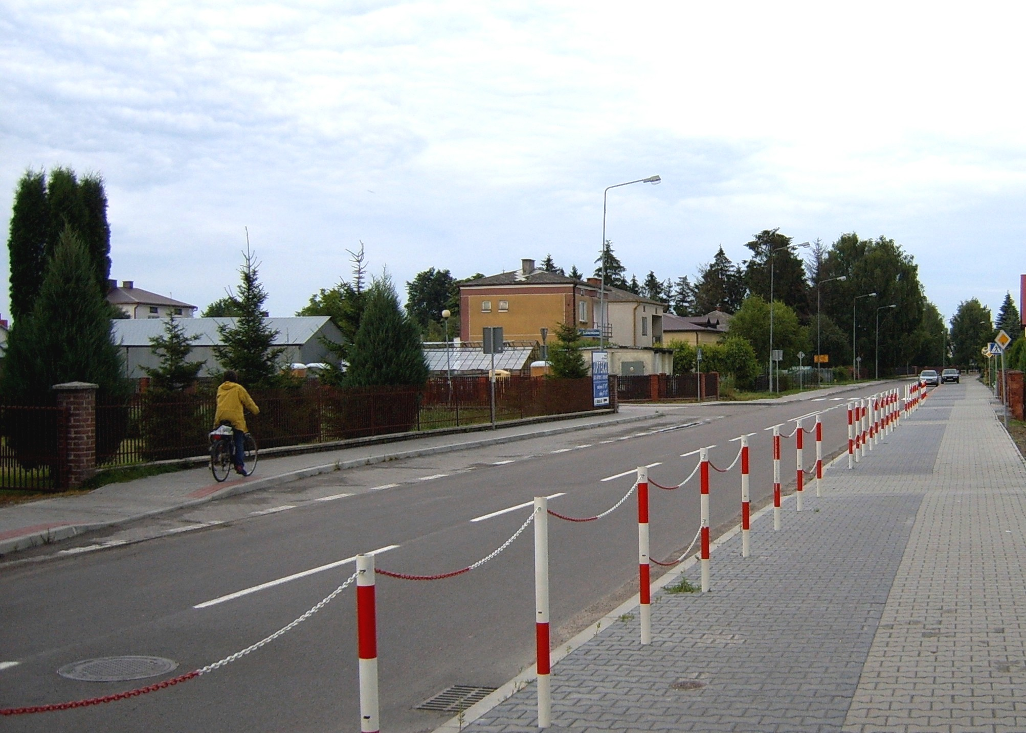 Graniczna Street in "Rataja housing estate" quarter, in Zamość